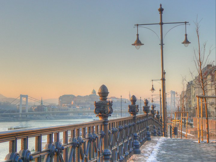 Danube looking from Fővám square, Budapest